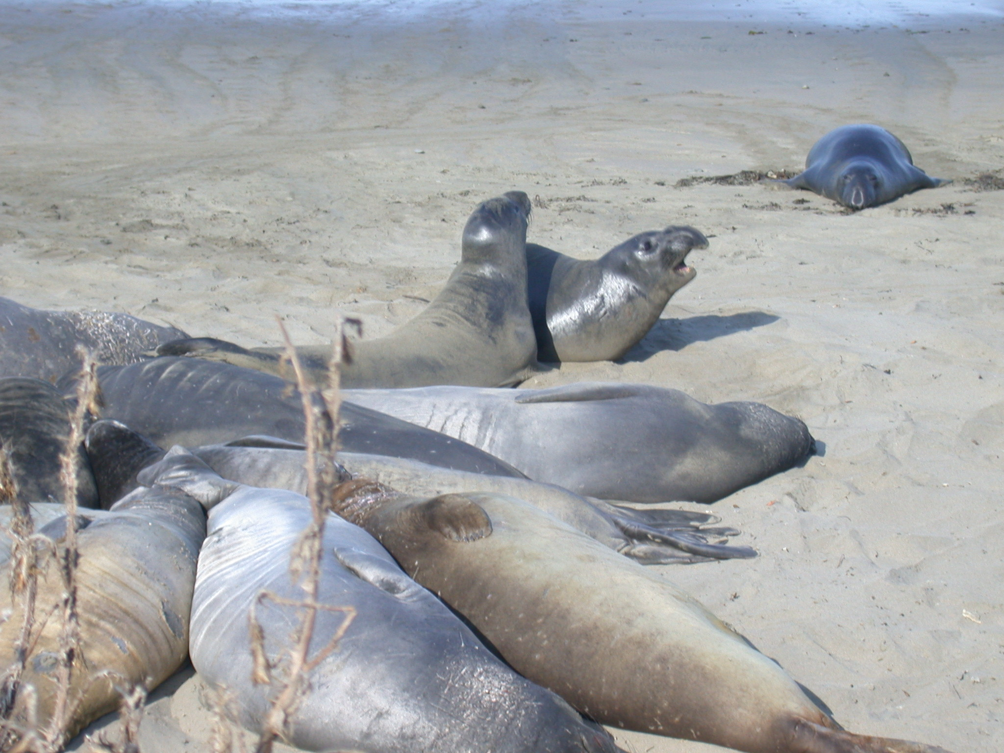 Northern elephant seals on a protected beach near San Simeon, California.